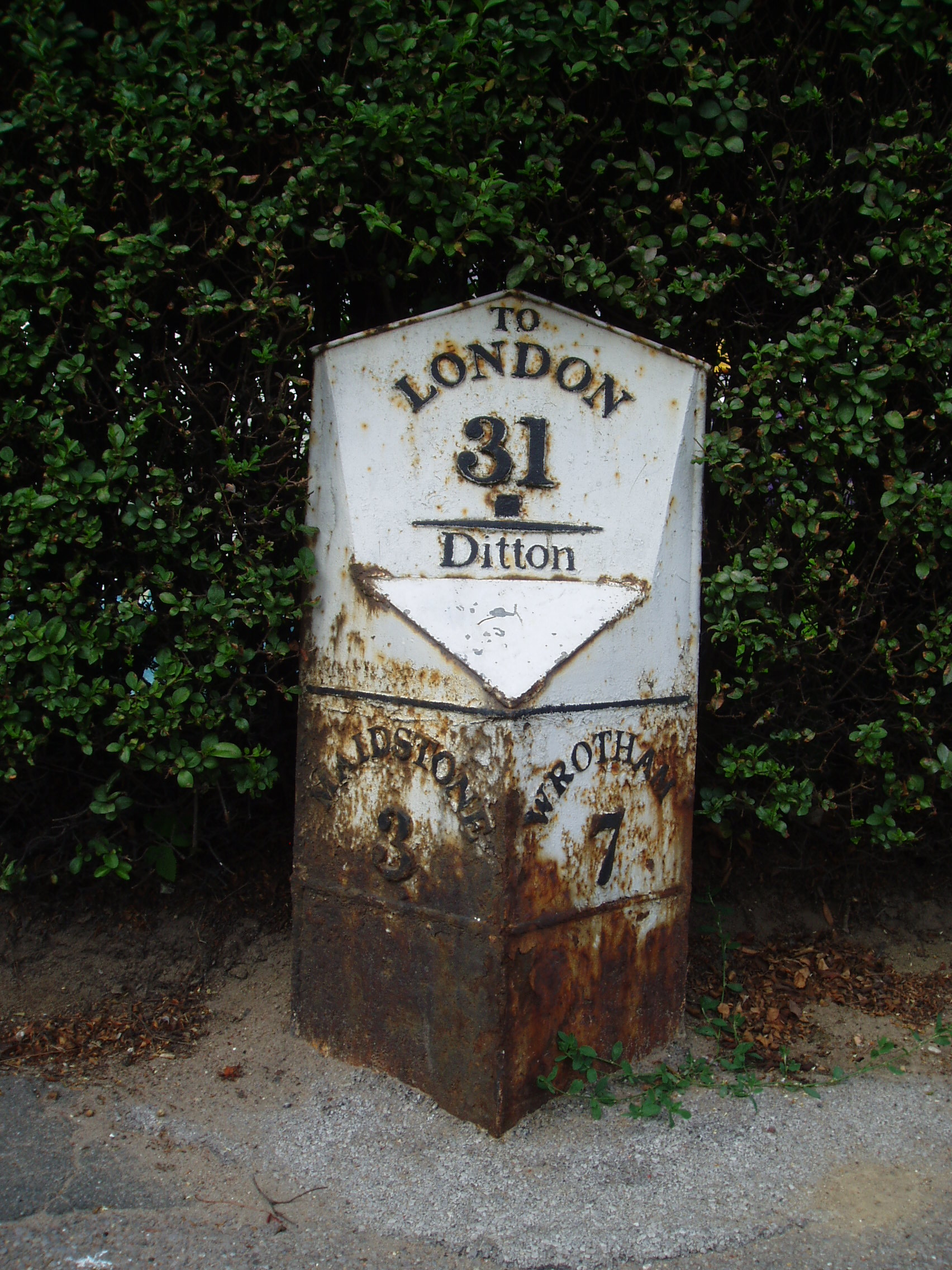 Milestone on the A20 at Ditton, Kent